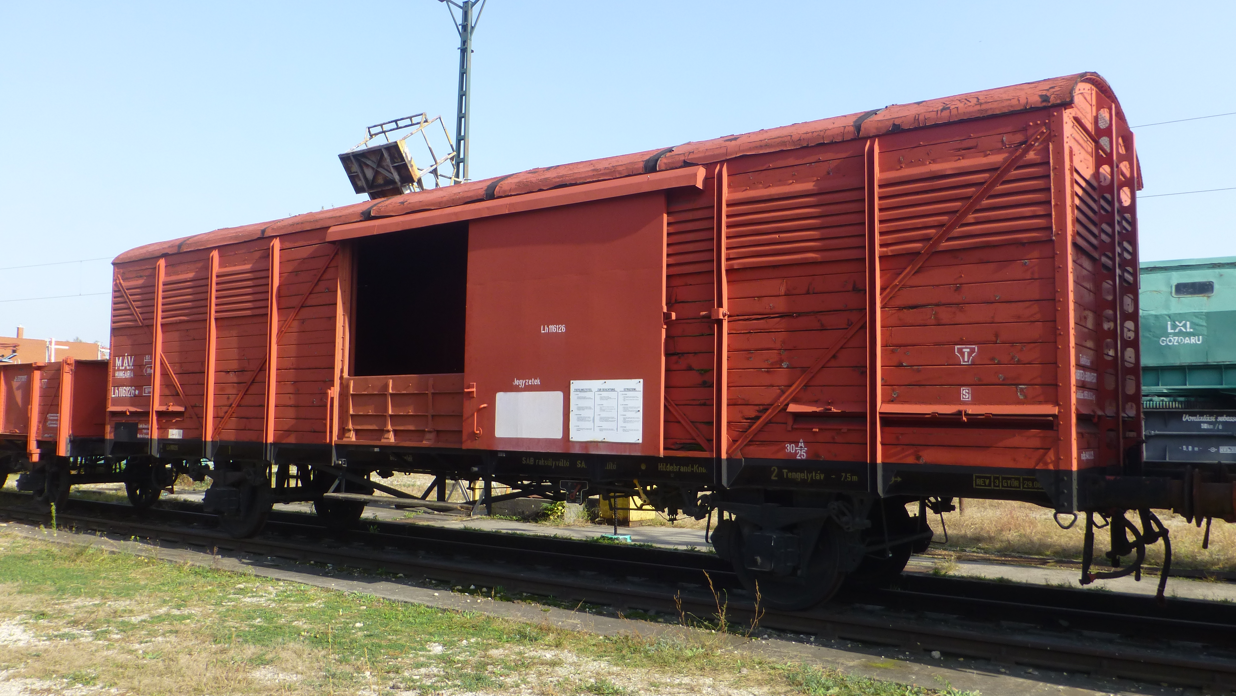 Number Lh116126 cattle transporter vaggon of the MÁV. The vaggon was built in Győr by the Hungarian Waggon and Machine Factory. The vehicle was renumbered to Hbks 2155 217 1116-5 by 1961.